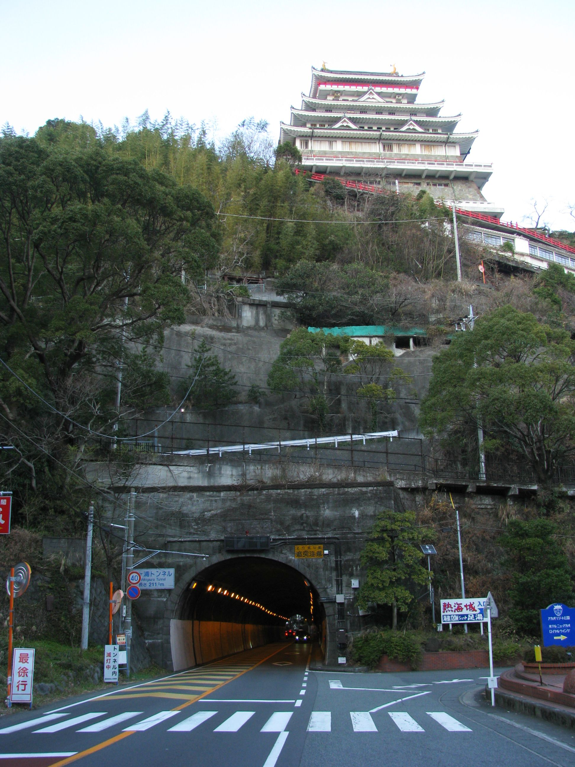 The Nishikigaura tunnel of Japan National Route 135. This location is Atami, in Shizuoka, Japan.